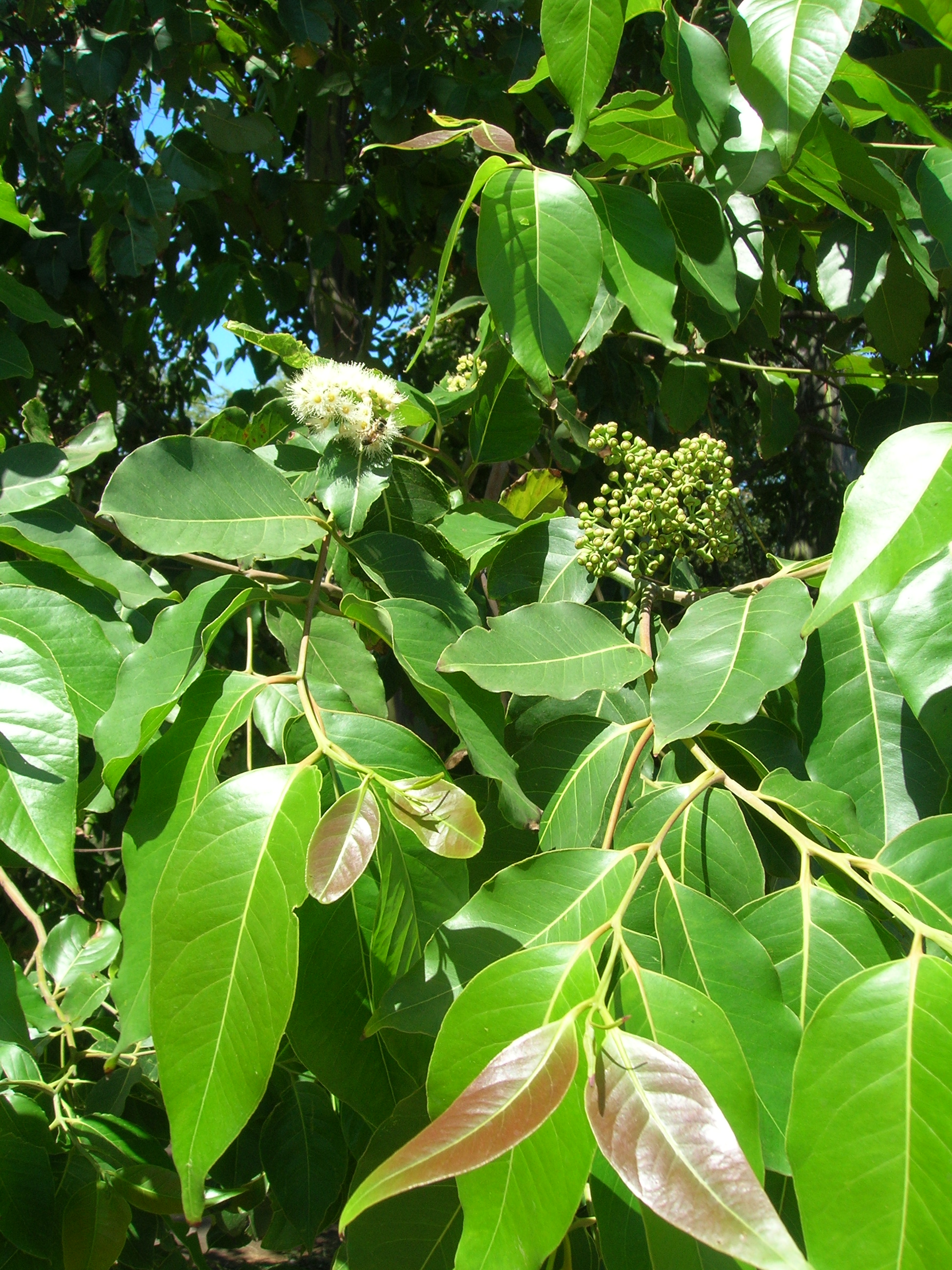 Eucalyptus deglupta (young leaves). Location: Maui, Kahului Community Center